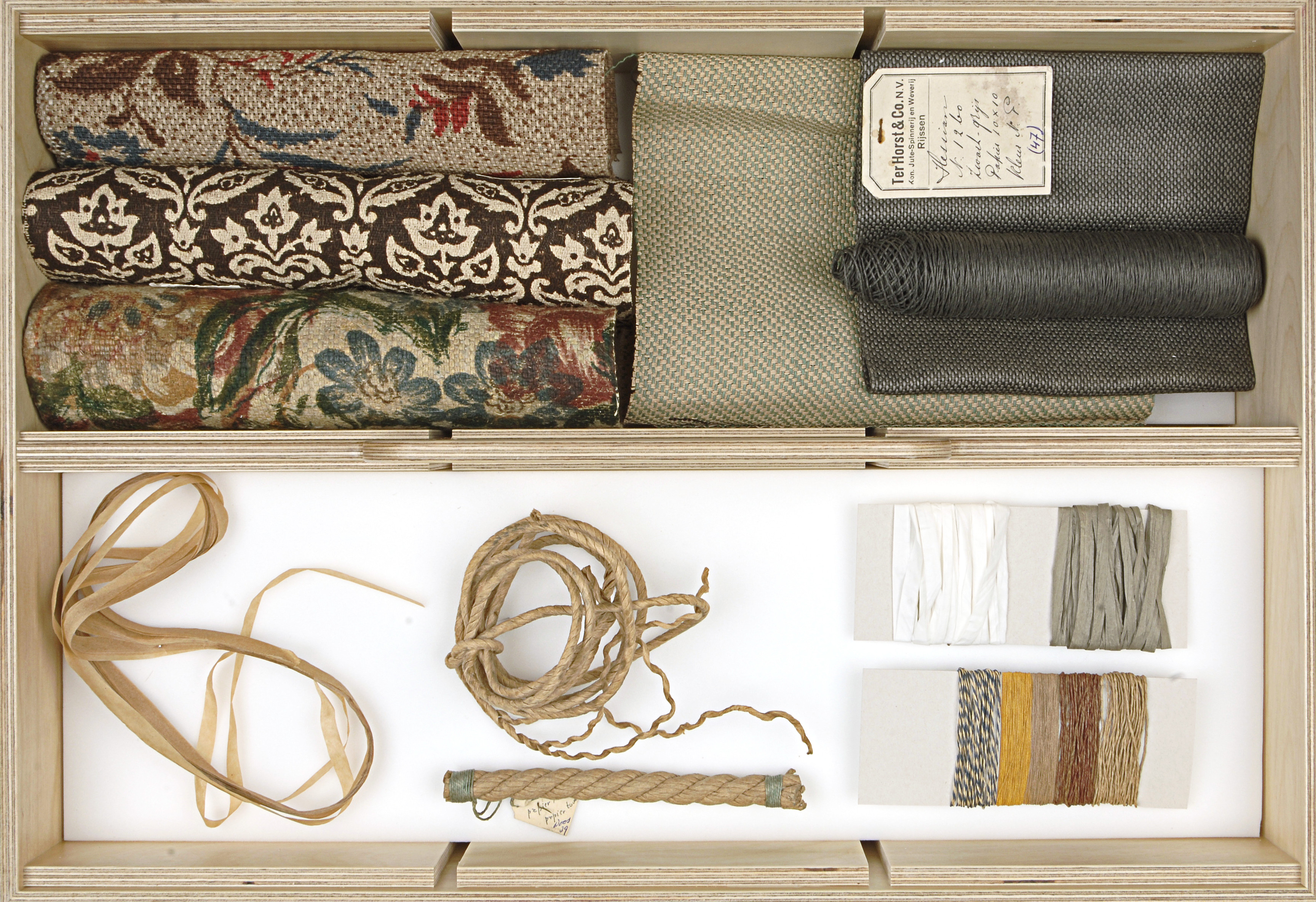 Paper textiles - Tray and samples of the textile cabinet in the Textielmuseum in Tilburg. Cabinet interior made by Simone de Waart, Material Sense.